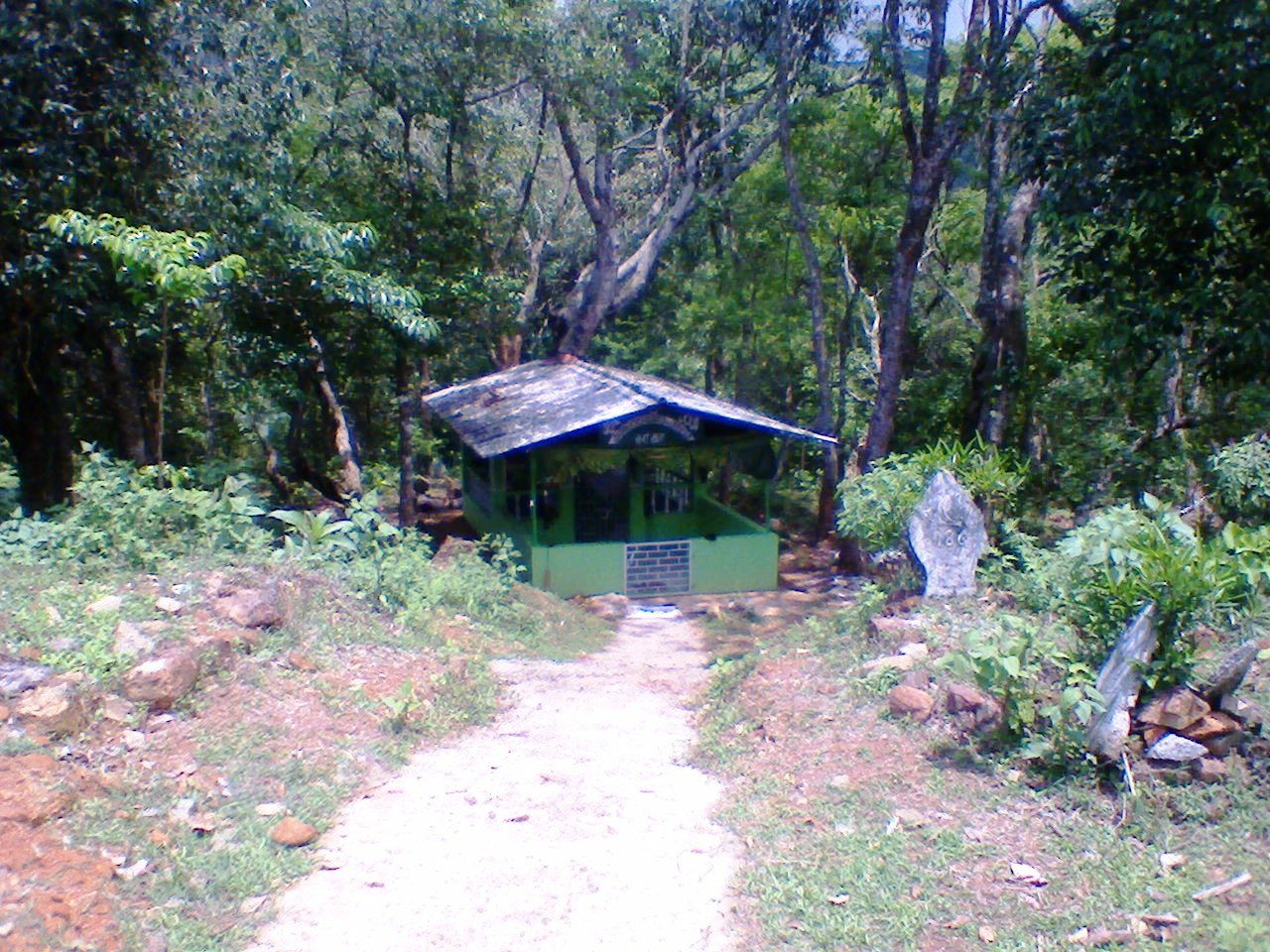 Pandallur, Gudalur, Nilgris District, Tamil Nadu, India.